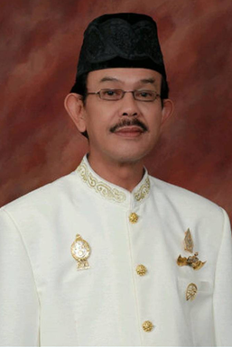 Ratu Bagus Hendra Bambang Wisanggeni Soerjaatmadja (Sultan Syarif Muhammad ash-Shafiuddin) official portrait, Sultan of Banten since December, 2016.